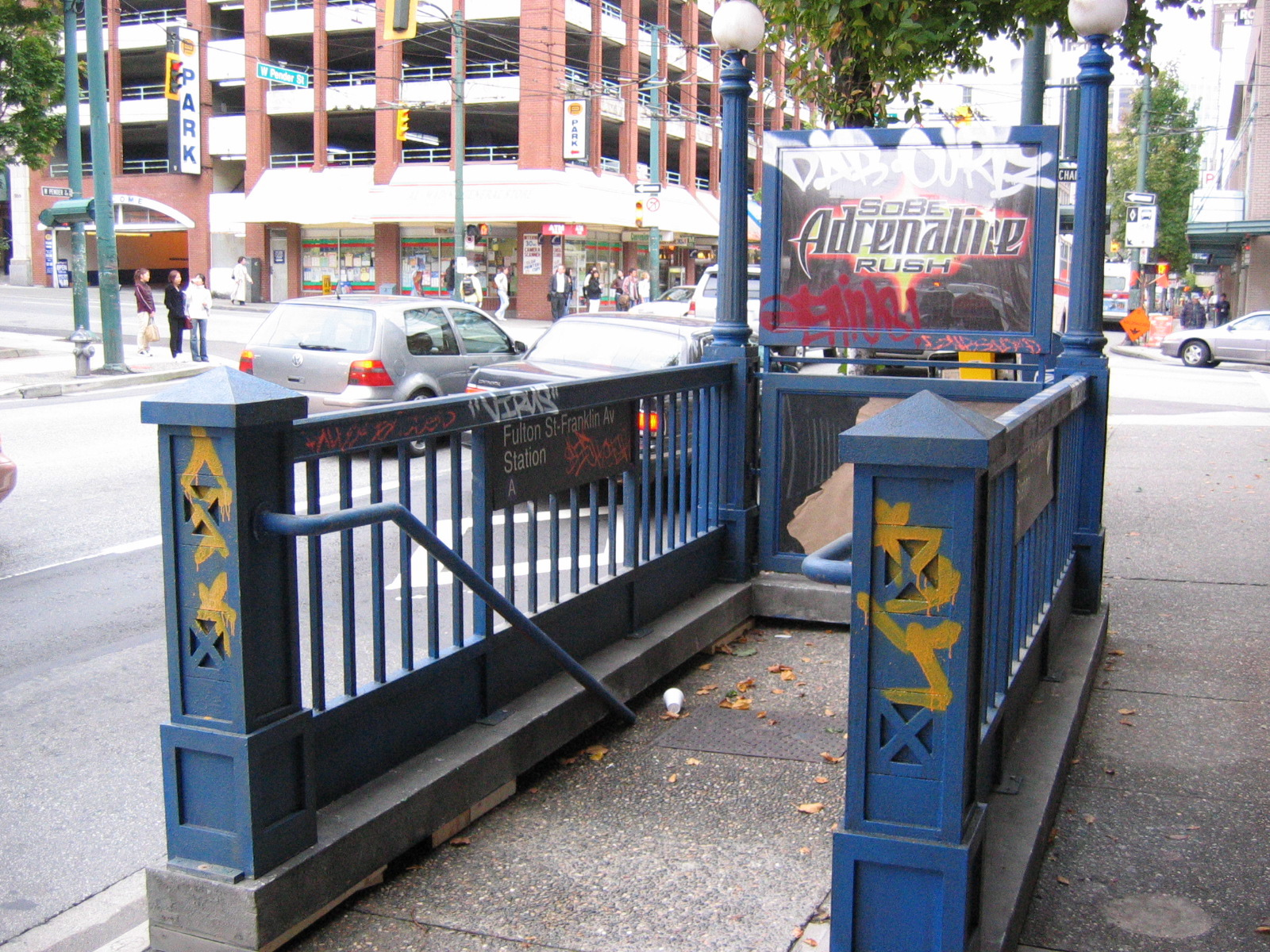 False New York City Subway entrance. It has been built for a film set and was located at the corner of West Pender Street and Richards Street in Vancouver, Canada.The sign reads “Fulton St-Franklin Av Station”.However, the name of the origninal station was just “Franklin Av”, and it would only see the C (and S) service stopping here while A trains were just passing the station.